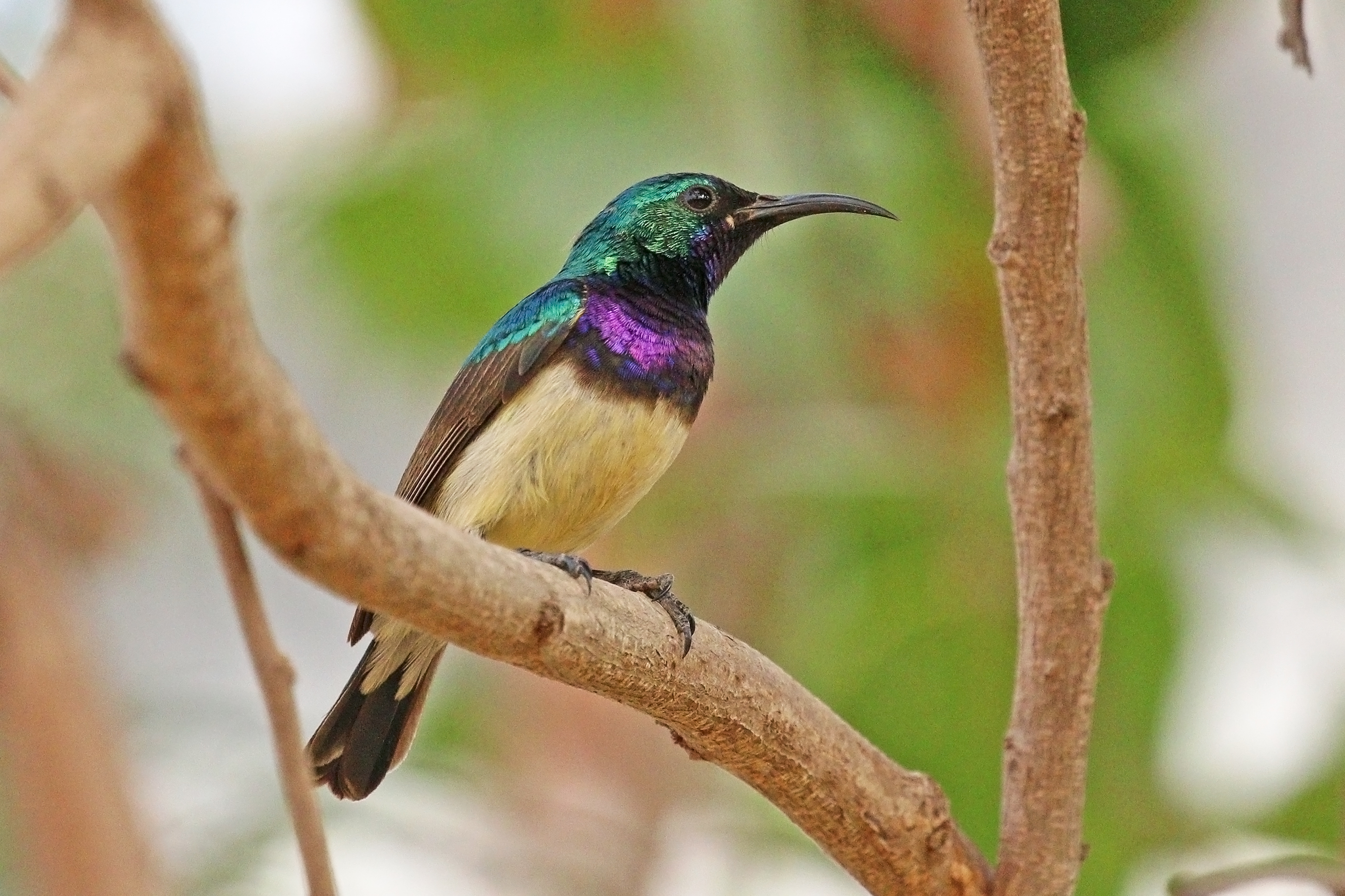 Variable sunbird (Cinnyris venustus venustus) female, The Gambia